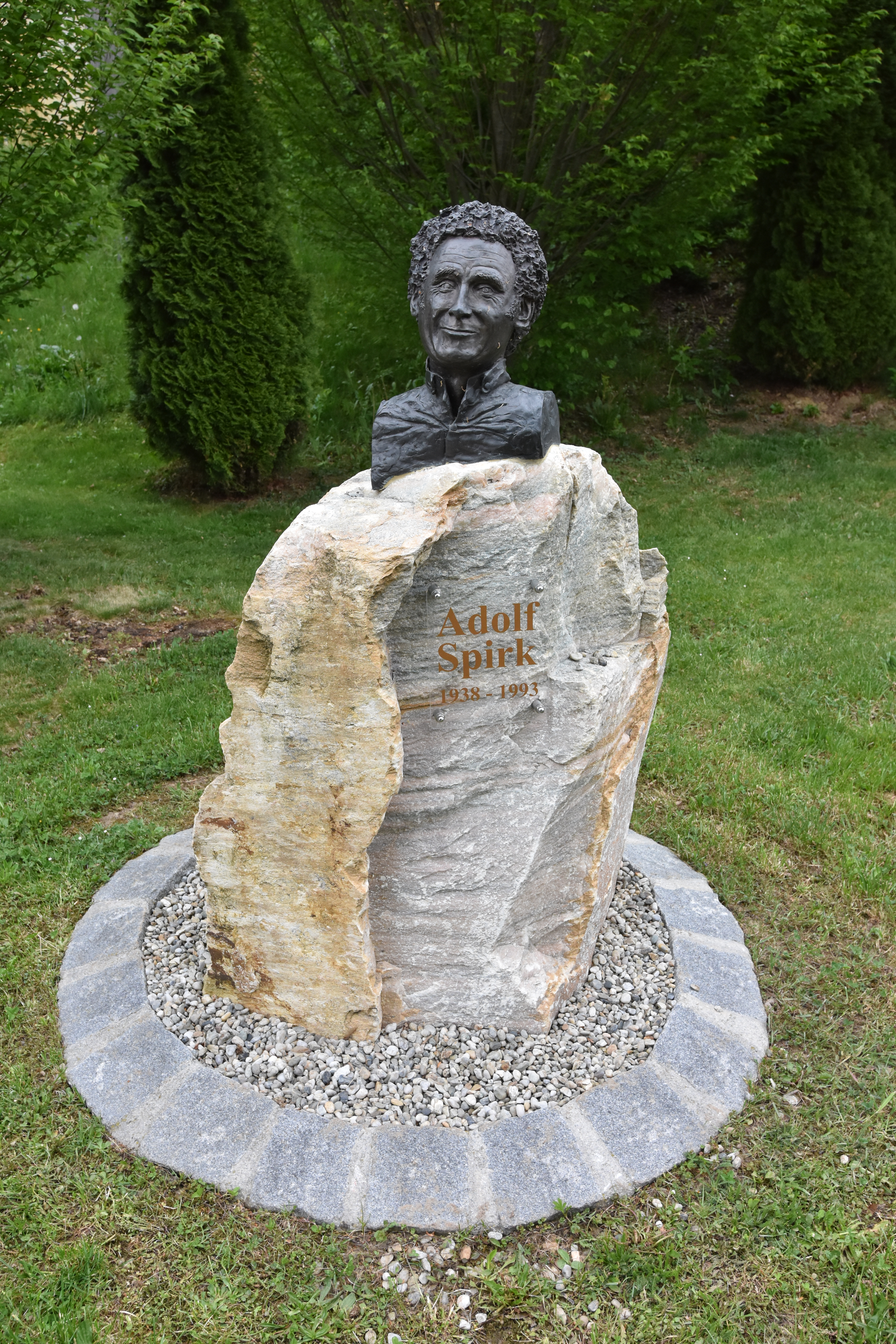 Adolf Spirk Sinabelkirchen